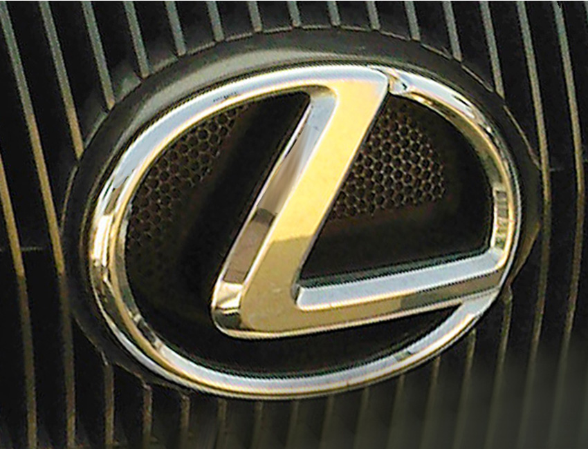 Lexus emblem